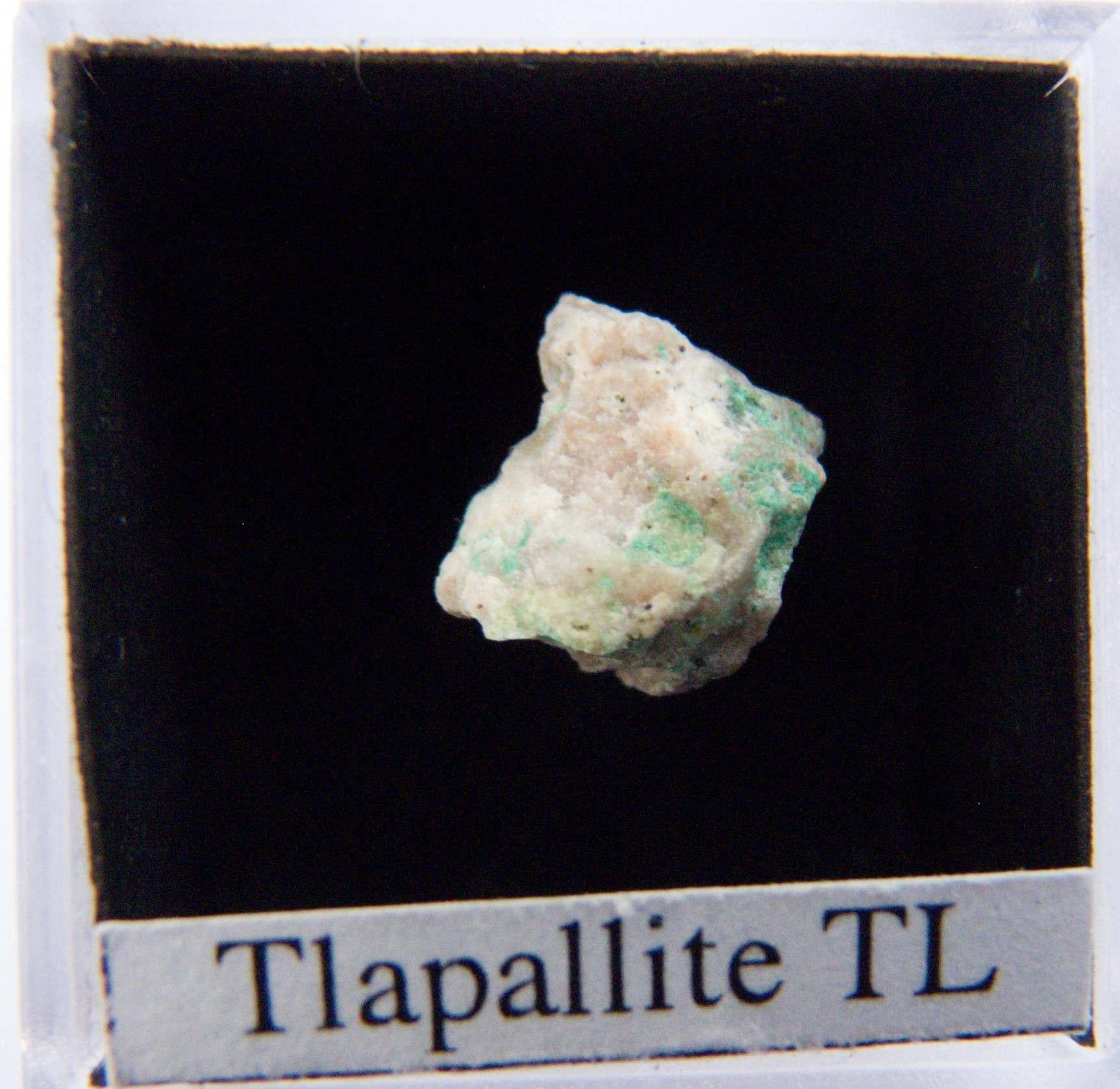 Locality: Bambollita mine (La Oriental), Moctezuma, Municipio de Moctezuma, Sonora, Mexico. Image width: 29 mm Collection and photograph by Matthijs Hellinghuizen